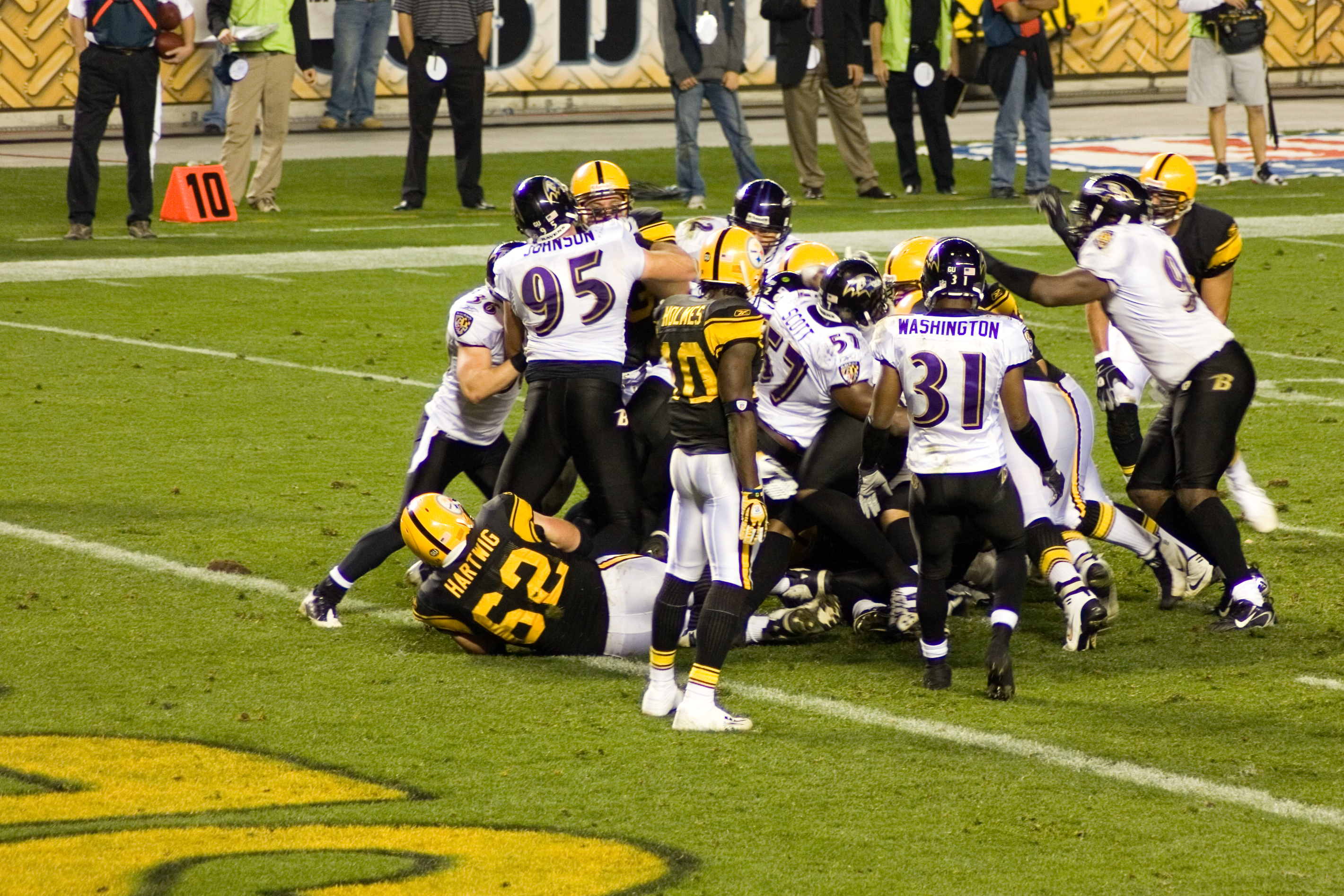 The Pittsburgh Steelers lineup against the Baltimore Ravens